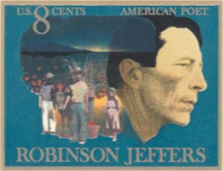 1973 U.S. Postal Service stamp in honor of Robinson Jeffers